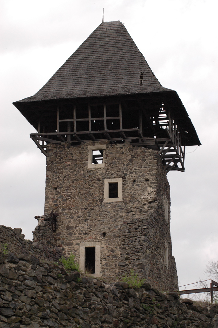 Nevitske Castle (Transcarpathian region, Ukraine)